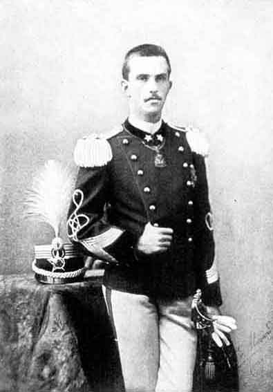 Portrait of crown prince (later King of Italy) Victor Emmanuel III of Italy (1869-1947)